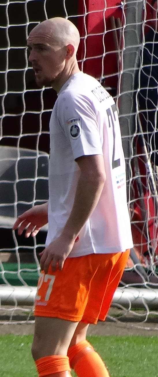 Sean Clohessy playing for Braintree Town against York City at Bootham Crescent, York on 1 April 2017